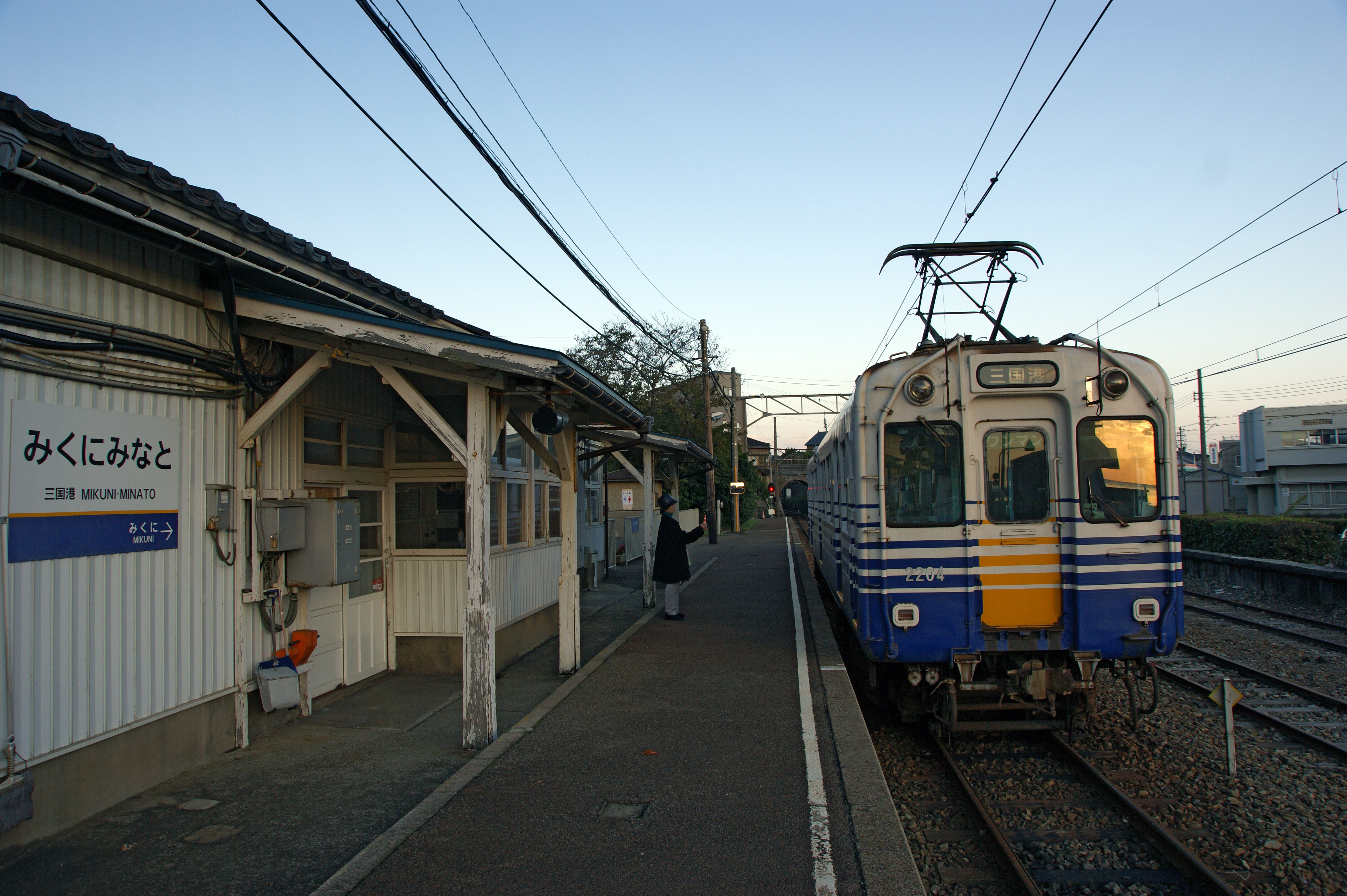 Mikuni-minato Station, Sakai, Fukui prefecture, Japan